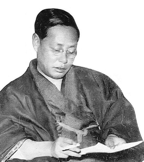 Seibi Hijikata